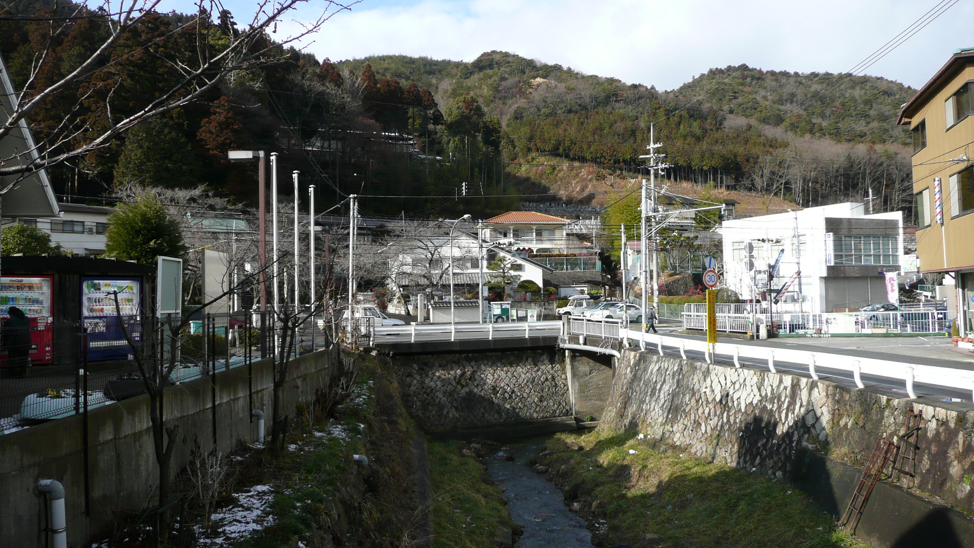 Kobe Electric Railway,Shintetsu-Rokko Station plaza. / 神戸電鉄有馬線神鉄六甲駅・駅前風景